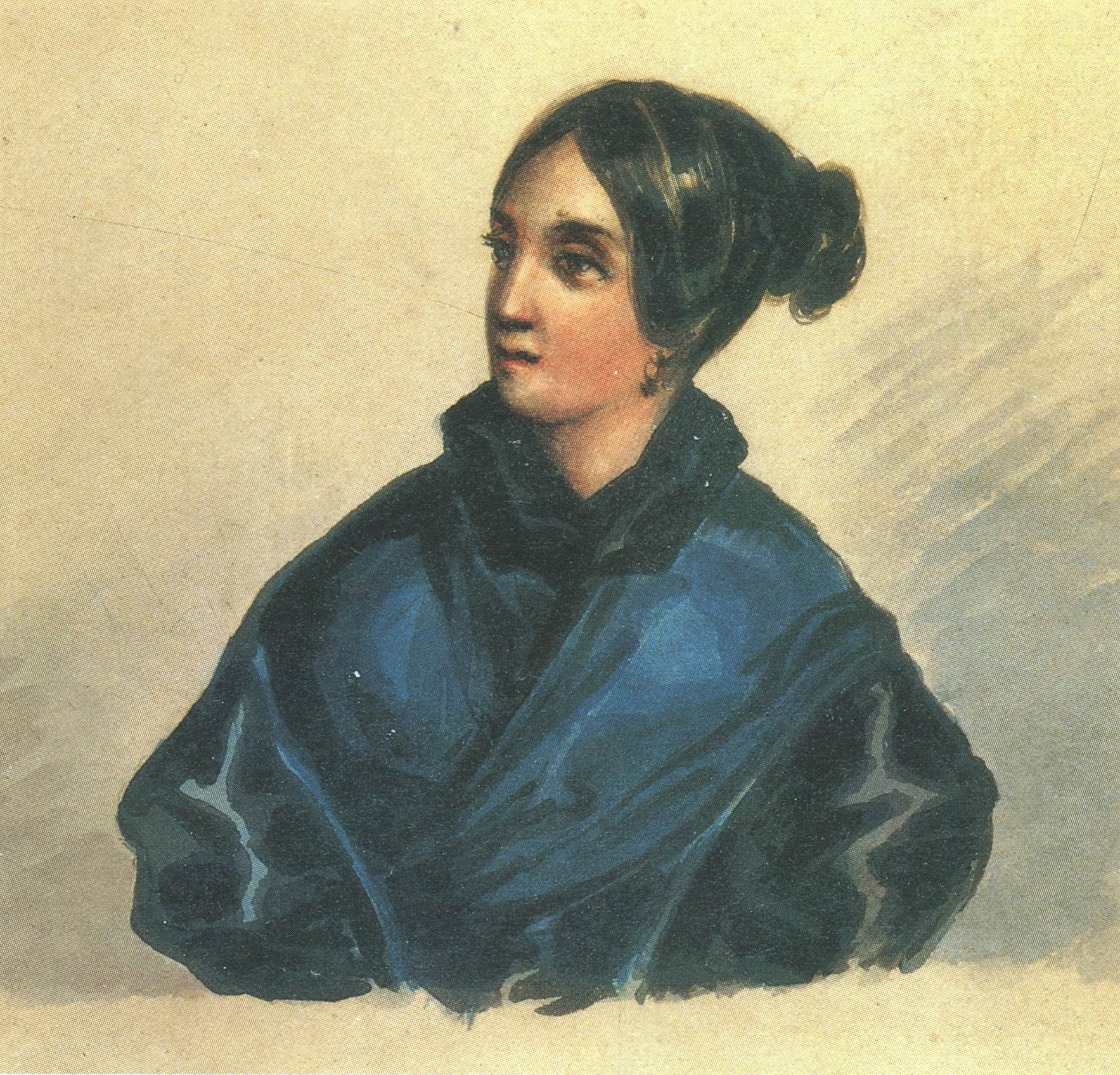 Lopukhina